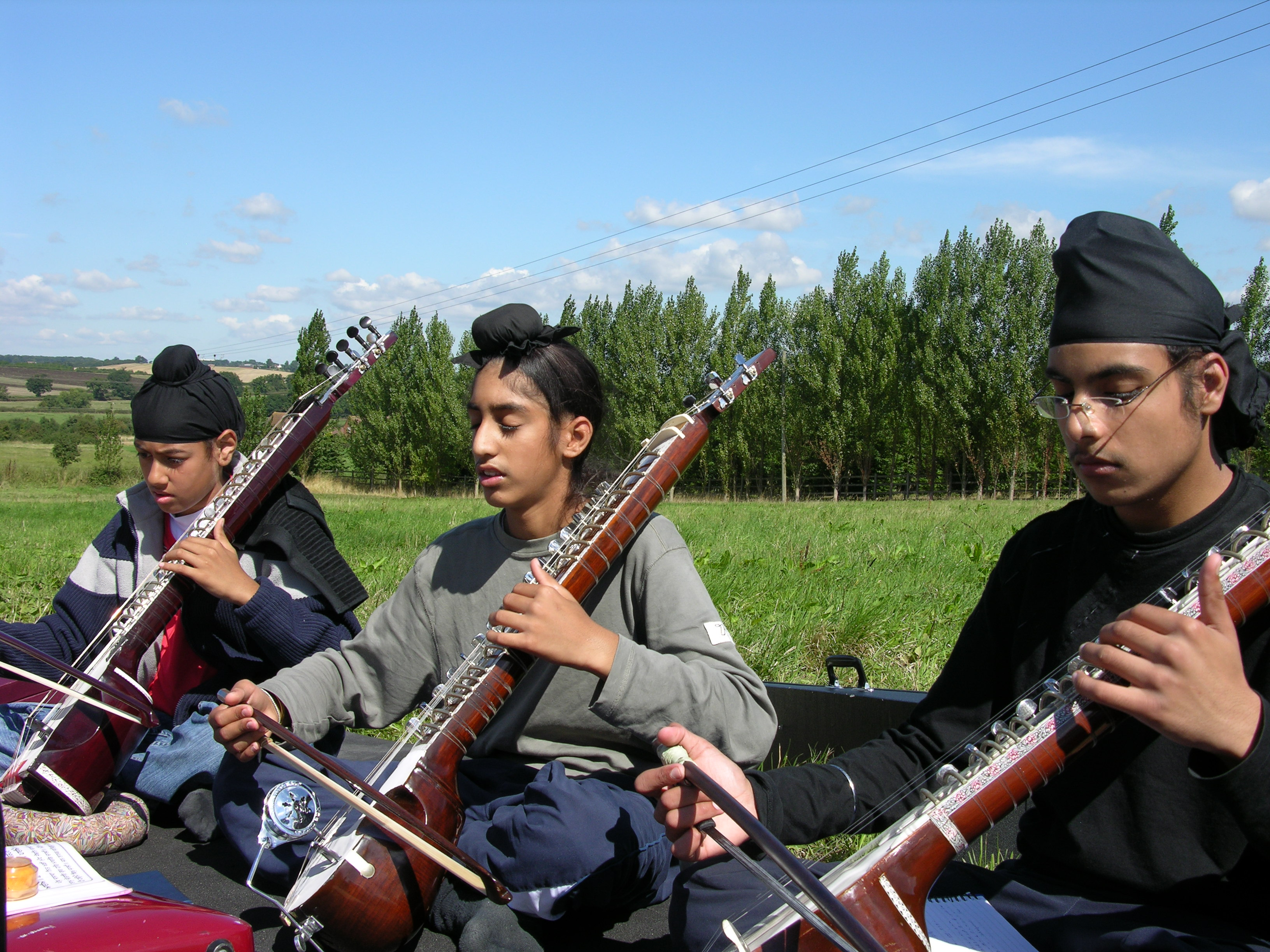 Kirtan singing of hymns from the Sikh scriptures is a historic tradition in Sikhism.